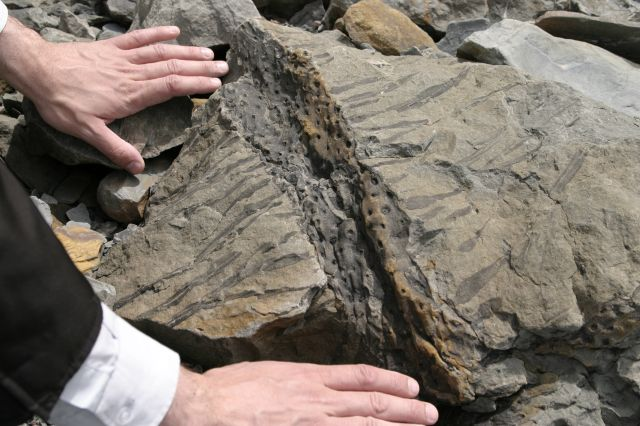 Imprint of a fossilized plant, tree or root. Joggins Fossil Cliffs, Nova Scotia, Canada.